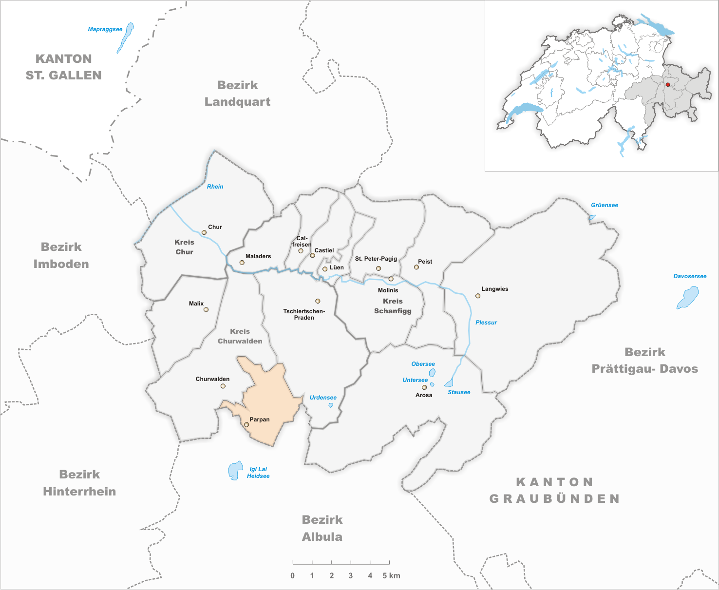 Municipality Parpan